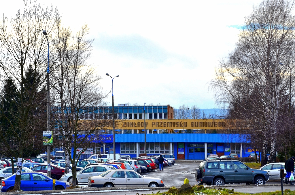 Stomil, Przemyska, Olchowce 2013